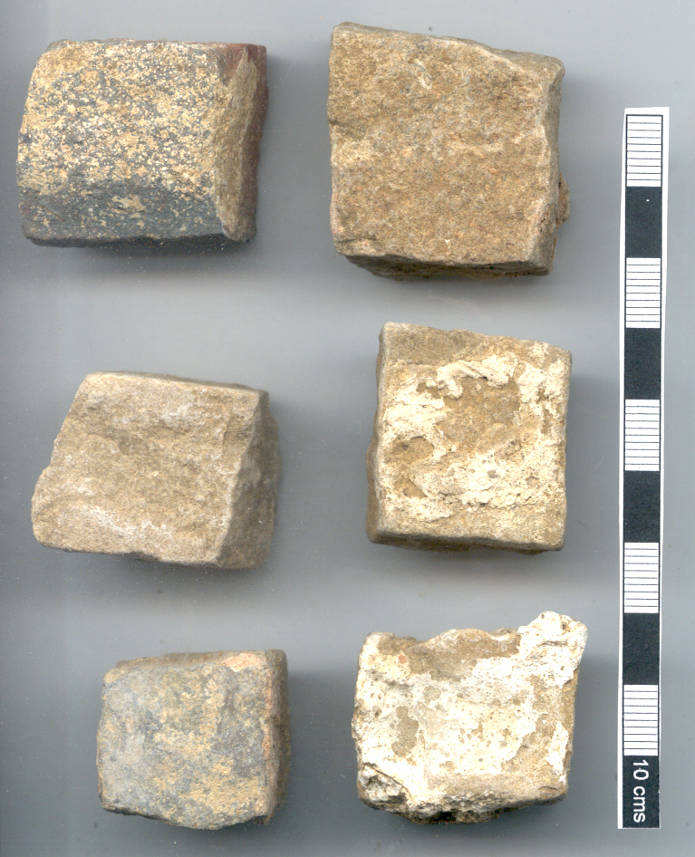 Six large tesserae blocks. Roman. Traces of lime plaster on the base. 5 are a grey, overfired ceramic, possibly a modified floor tile. One is lighter and is made up of a more sandy red fabric. The large size of the tesserae suggest that they were used on a low quality, low status floor meant for heavy footfall. Largest - 30mm x 28mm x 20mm. Smallest - 24mm x 24mm x 15mm. Combined weight of 192.27g.